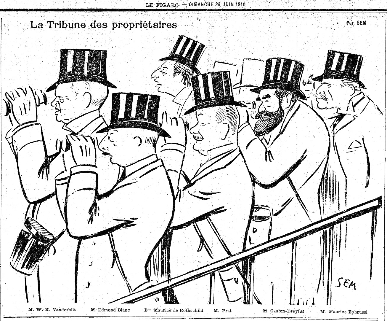 Caricature in "Le Figaro": W.C. Vanderbilt, EDmond Blanc, Maurice de Rothschild, M. Prat, M. Gaston Dreyfus, M. Maurice Ephrussi